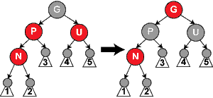 Produced by Derrick Coetzee in Illustrator and Photoshop for the red-black tree page. Explains insertion of a node when its parent and uncle are both red (case 3). Size reduced with pngcrush.